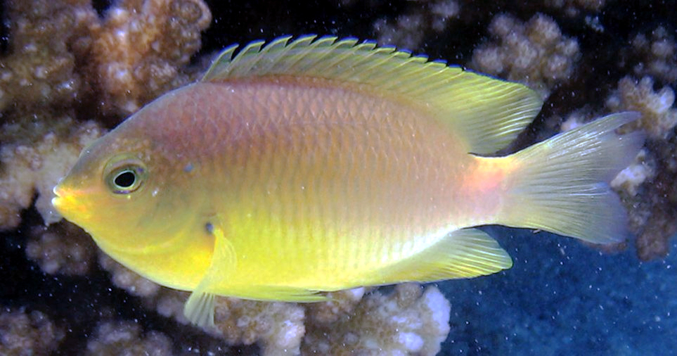 Mature Pomacentrus amboinensis. Image modified from (2013). "Spot the Difference: Mimicry in a Coral Reef Fish". PLoS ONE 8 (2): e55938. PMID 23418480. PMC: 3572176.